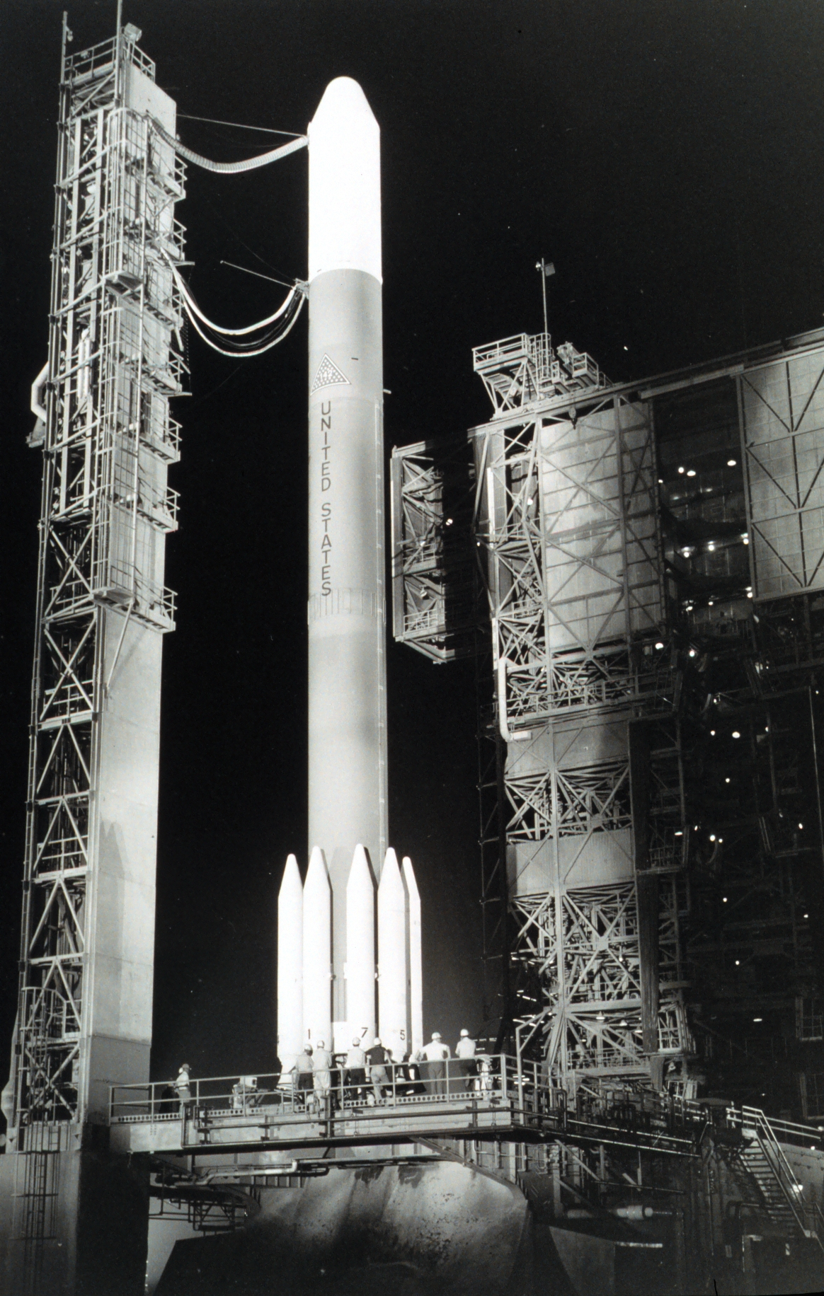 GOES-C awaits launch aboard Delta Launch Vehicle 142. It was placed in geostationary orbit at 135 degrees west longitude.